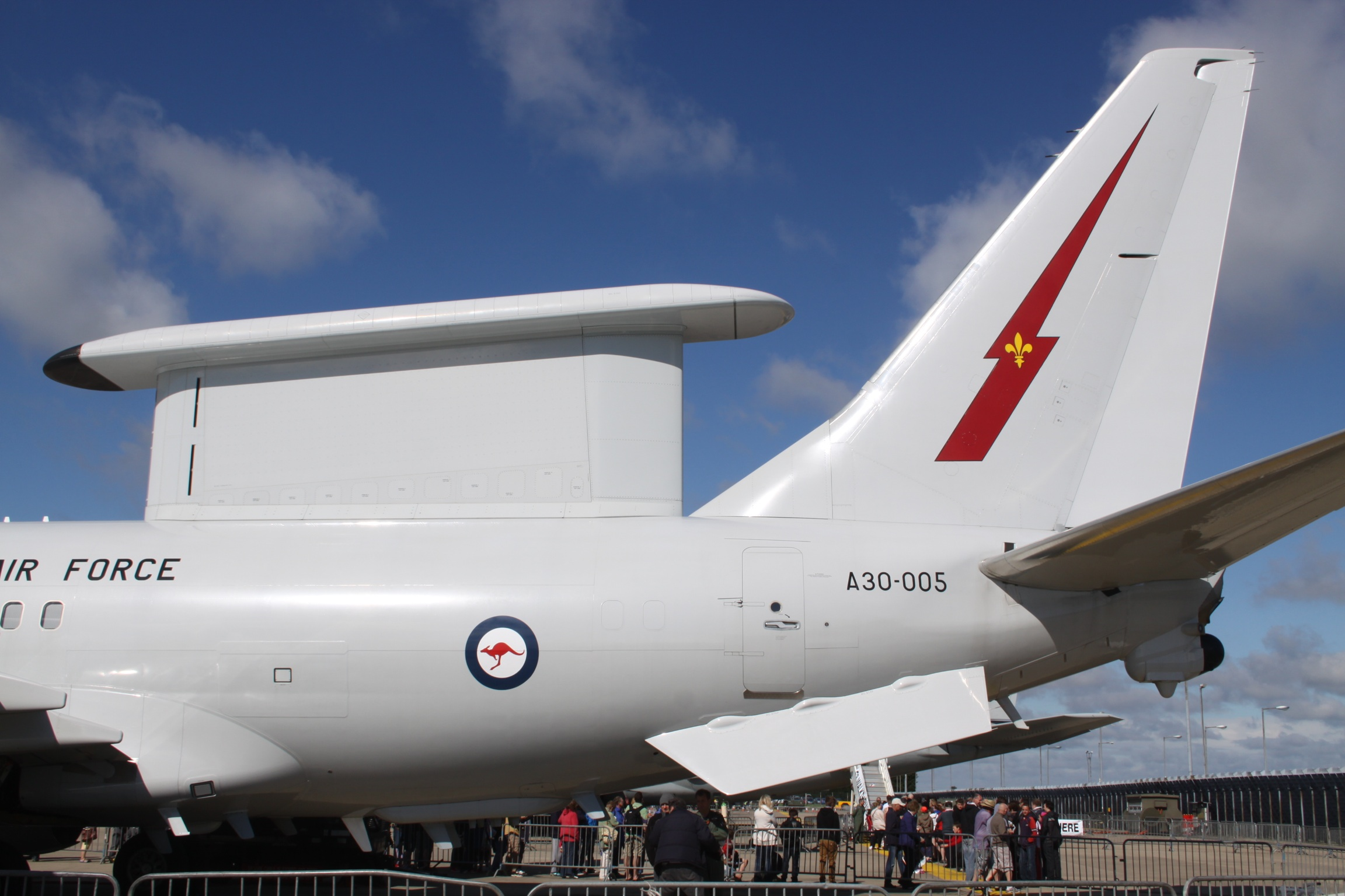 At RAF Waddington